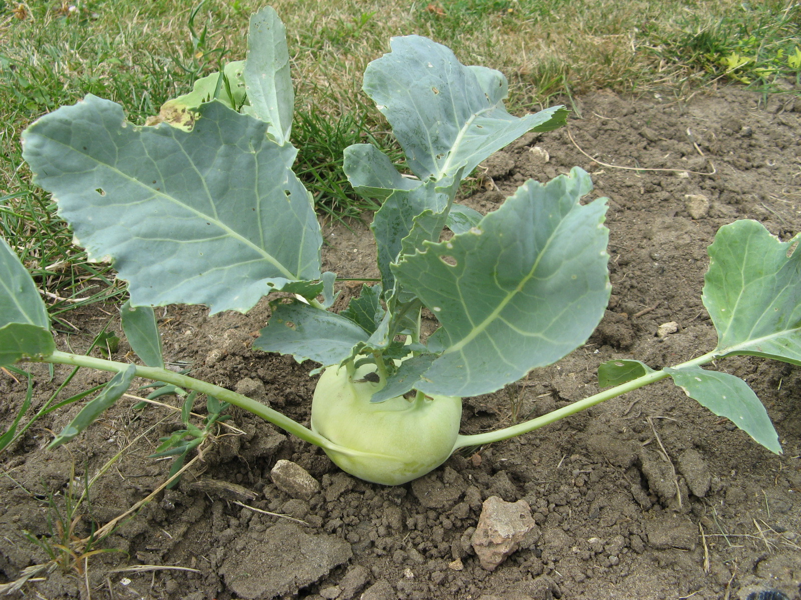 Kohlrabi (German Turnip) (Brassica oleracea Gongylodes Group)